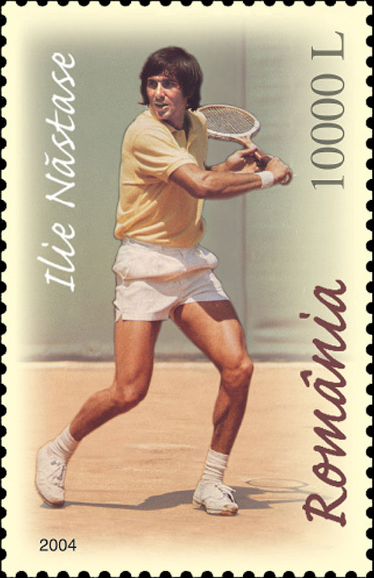 Stamps of Romania, 2004